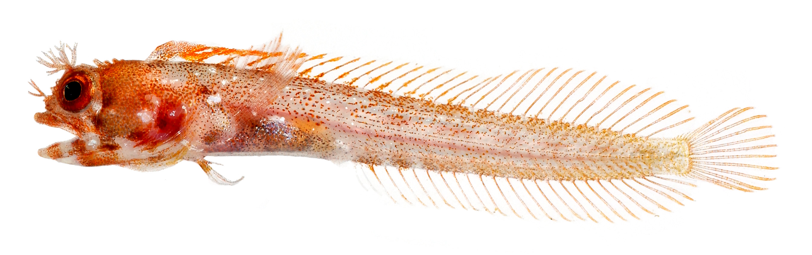 Description: The standard length of the adult female roughhead blenny is twenty-one millimeters. This image was taken with a Nikon D1X 5.47-megapixel camera with a 105-millimeter f/2.8D AF Micro-Nikkor lens and dual Nikon SB28 flash units. Creator/Photographer: Belize Larval-Fish Group 2002 The Division of Fishes of the Smithsonian’s National Museum Natural History has sent several teams to Belize in order to photograph larvae in the field. The 2002 team included Julie H. Mounts, David G. Smith, Carole C. Baldwin, and James Van Tassell. Medium: Digital photograph Geography: Belize Date: 2002 Persistent URL: [1] Repository: National Museum of Natural History, Division of Fishes Image ID: C3-48